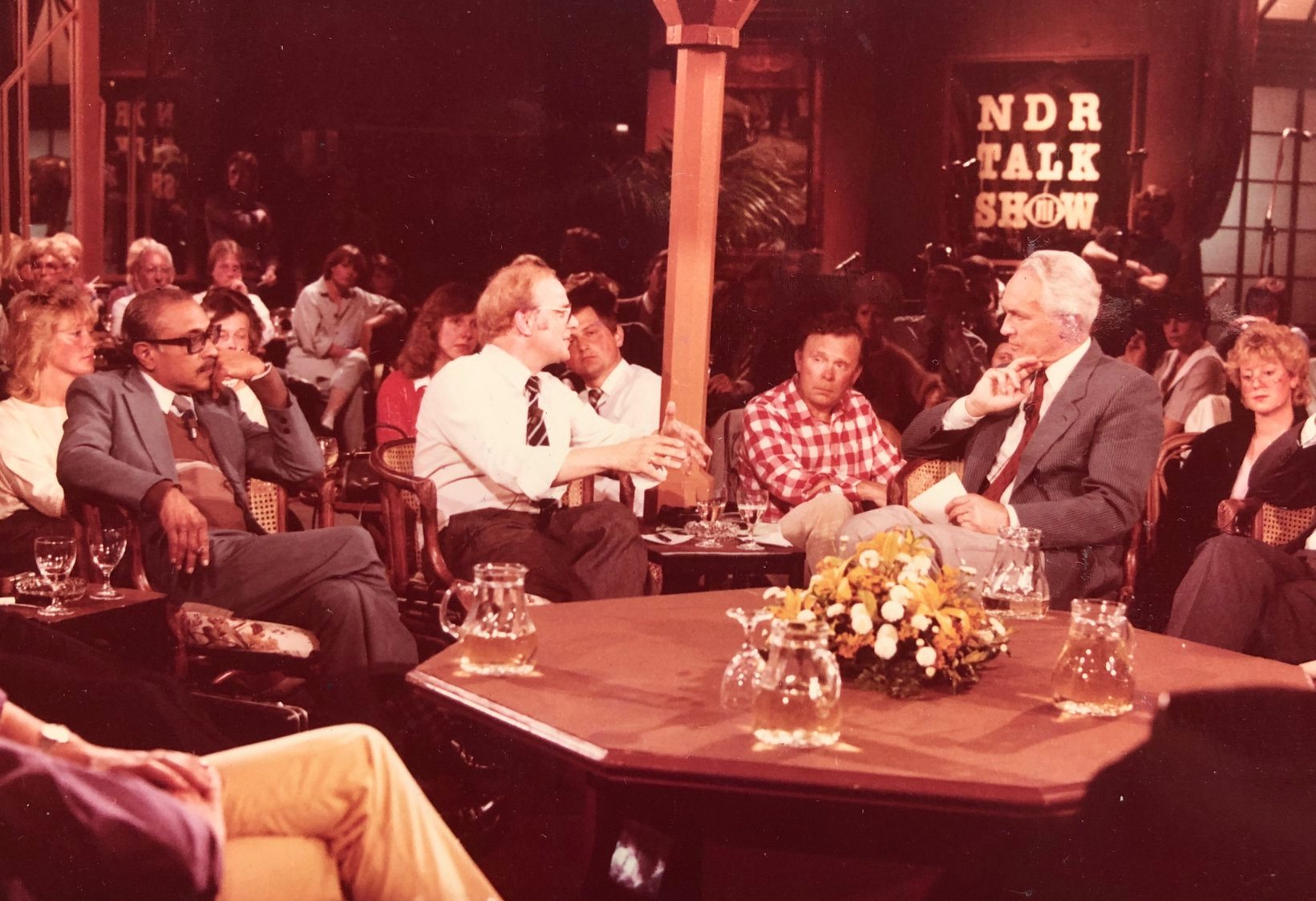 Defending Sri Lanka's reputation back when the Tamil Diaspora was active in Europe - 1984